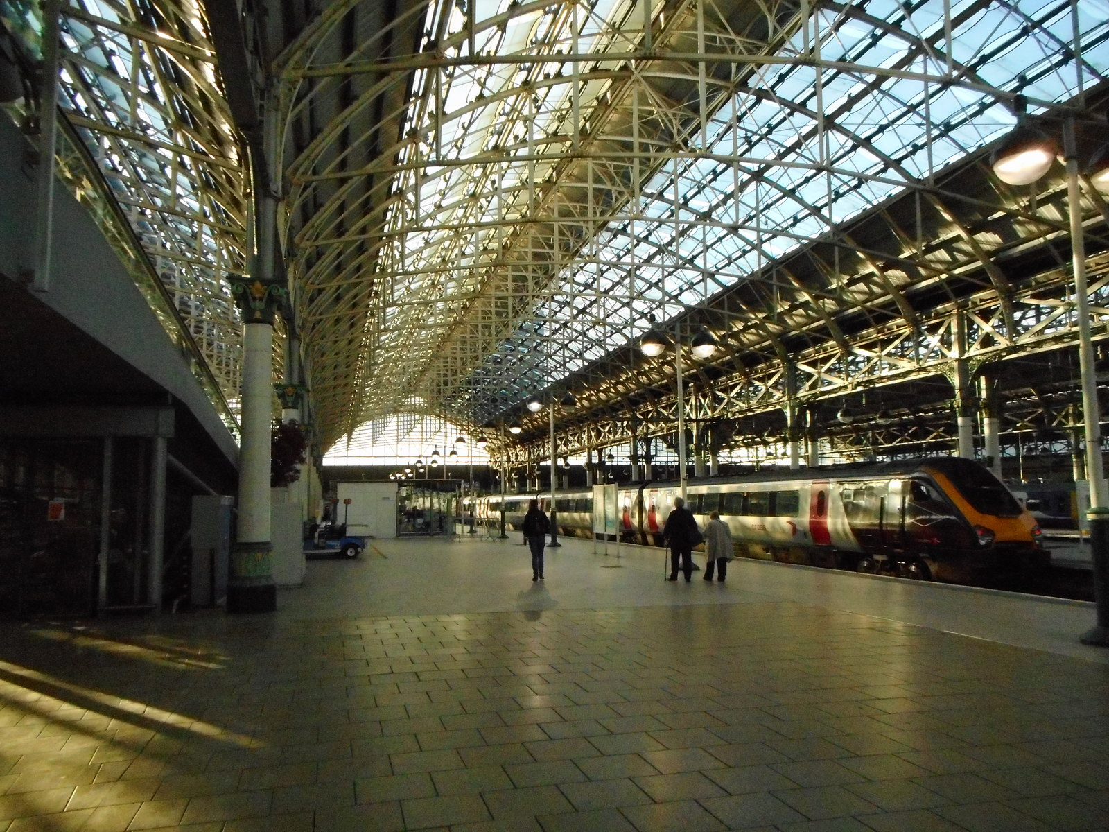 Manchester Piccadilly station